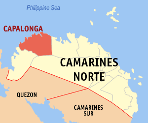 Map of Camarines Norte showing the location of Capalonga